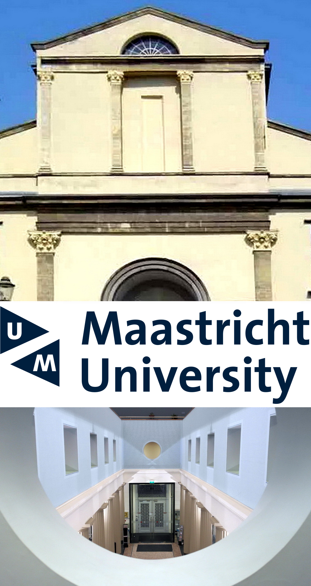 Photo montage of Maastricht University, the Netherlands. The university's logo and name is placed between two photos of the Minderbroedersberg administrative headquarters. The following files were used: File:UM, Minderbroedersberg.jpg File:Maastricht University logo (2017 new version).svg File:Maastricht, Minderbroedersberg, hoofdzetel UM, interieur6.jpg All photos and logo's under a Creative Commons Share Alike license.